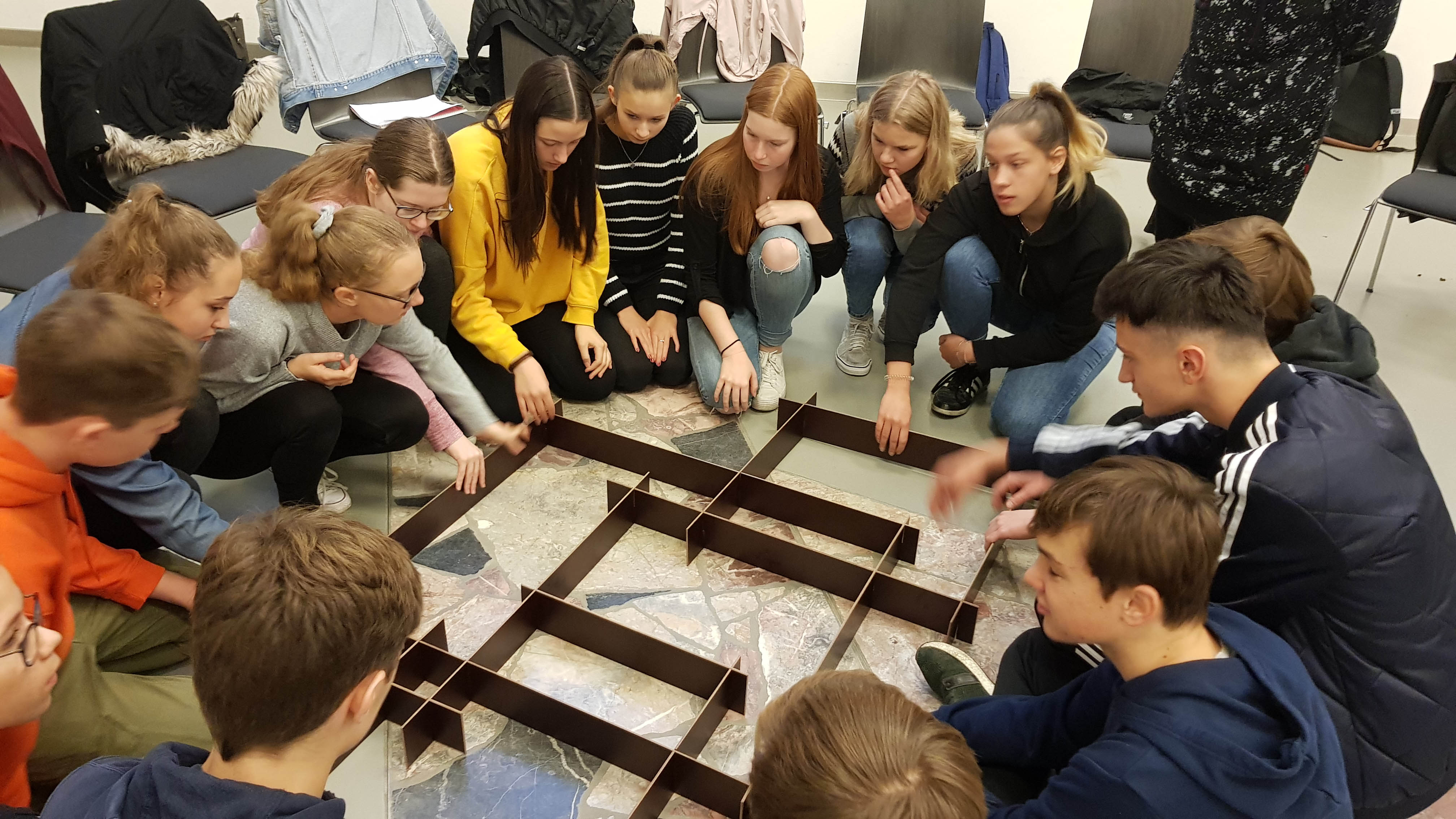 Stammkurstag der Jahrgangsstufe 10 mit kooperativen Spielen